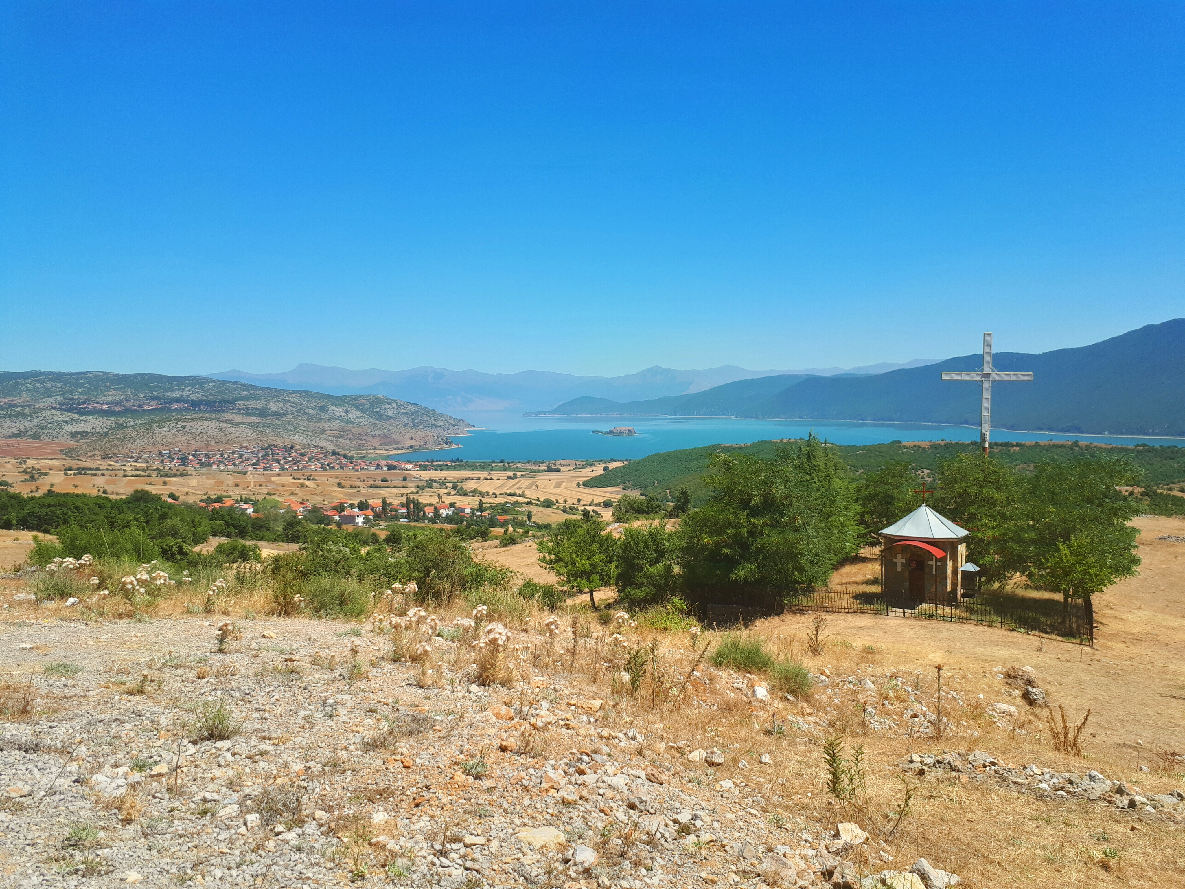 View of the villages Leska and Pustec, as well and island Maligrad in Prespa Lake